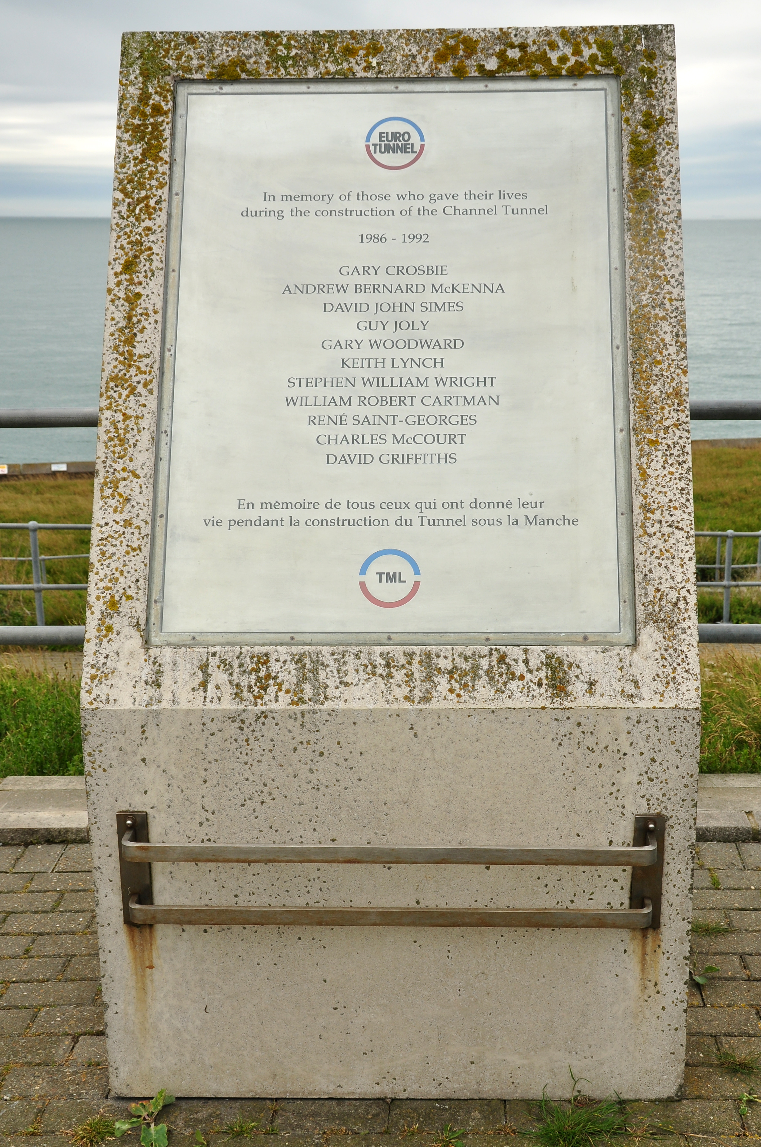 Memorial to the workers killed in construction of the Channel Tunnel, at Samphire Hoe near Dover, Kent.